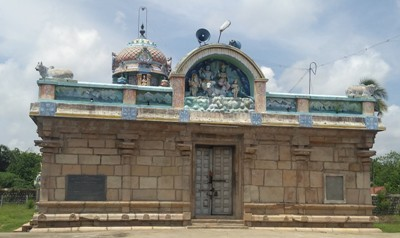 Shrine of the Presiding deity, Ramanadisvarar Temple, Tirukkannapuram, Nagapattinam District, Tamil Nadu, India